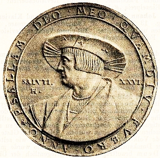 Swiss composer Ludwig Senfl (ca. 1486 - ca. 1542-1543).